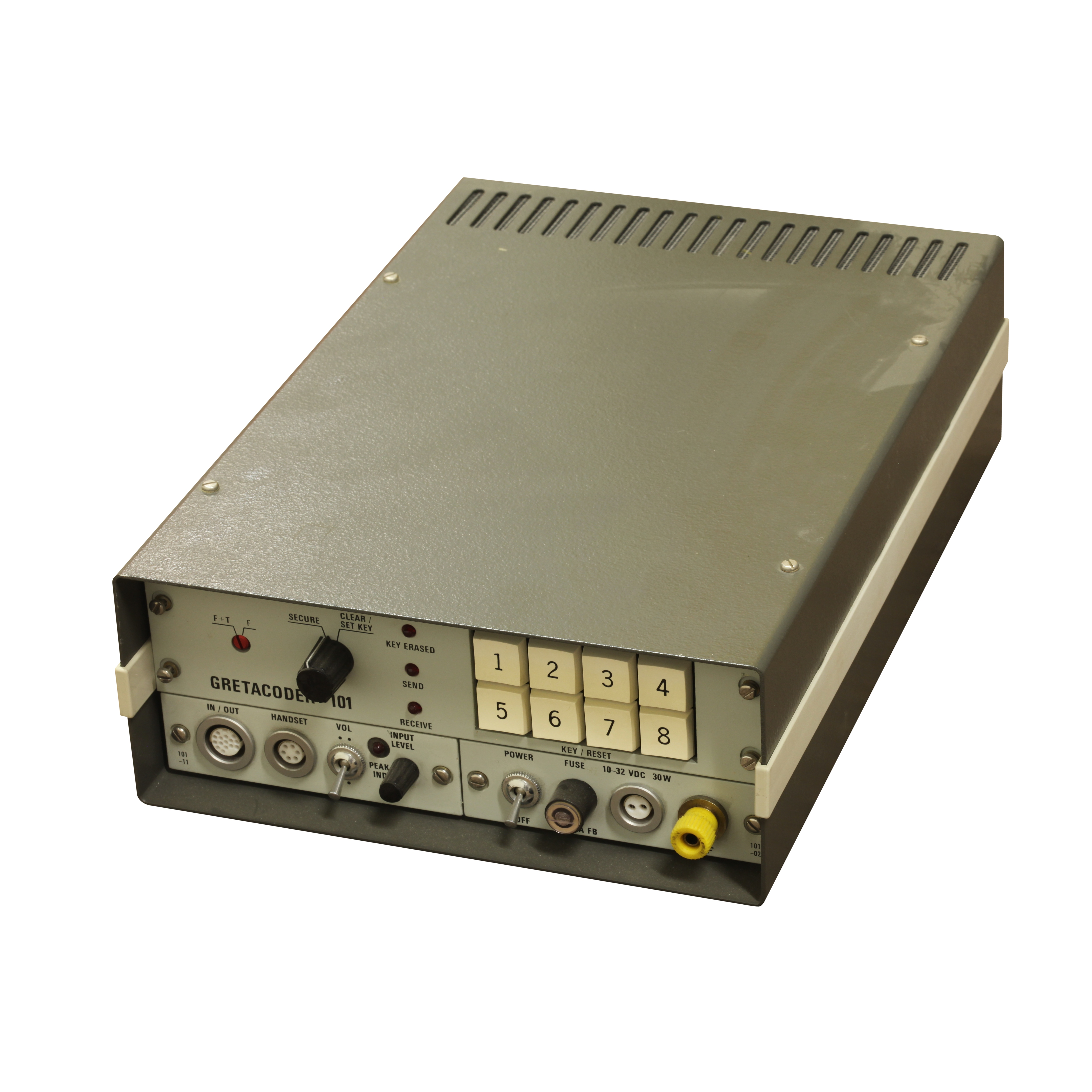 Gretacoder 101. Cryptography collection of the Swiss Army headquarters The making of this document was supported by Wikimedia CH.(Submit your project!) For all the files concerned, please see the category Supported by Wikimedia CH.